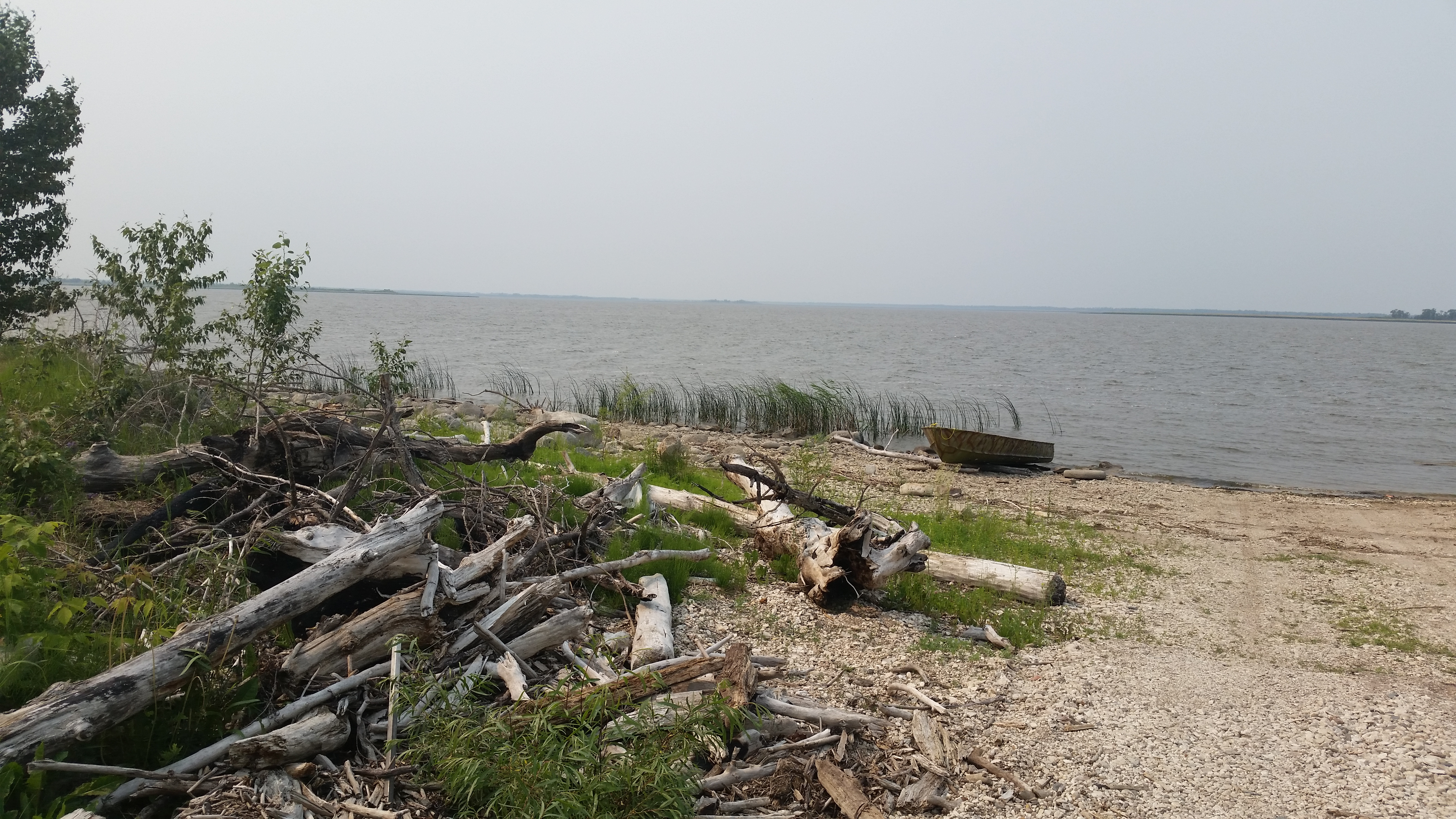 Photo taken on the south shore of Red Deer Lake at the settlement north of Barrows, Manitoba.